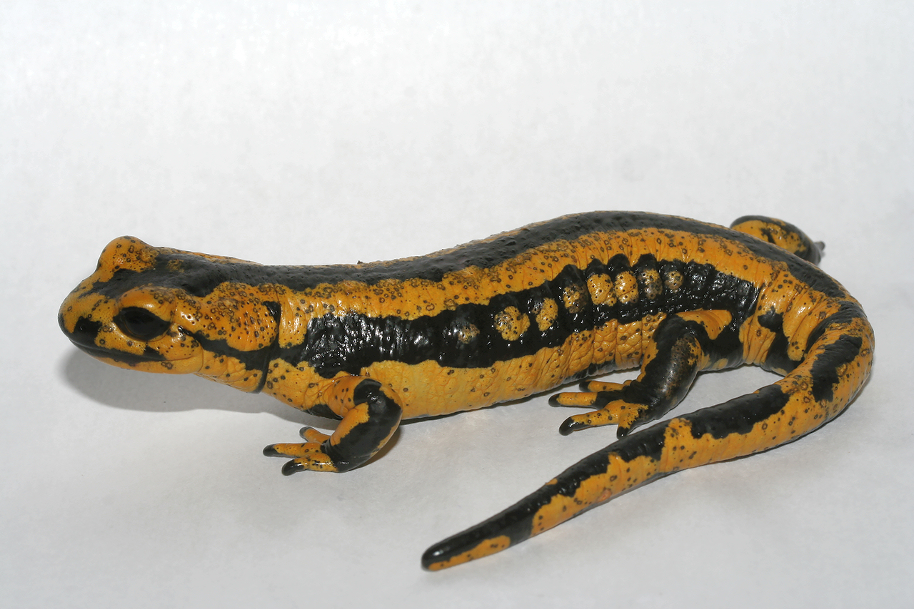 Fire salamander (Salamandra salamandra) covered with Batrachochytrium salamandrivorans ulcerations, which are visible as black spots (photo credit = F. Pasmans)